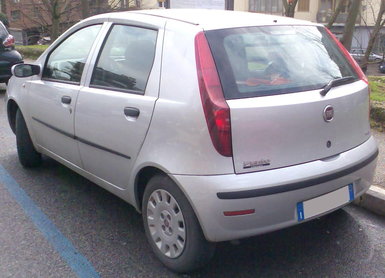 2010 Fiat Punto Classic rear